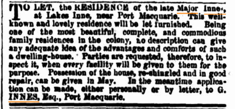 To let notice of Lake Innes House, Port Macquarie in 1860